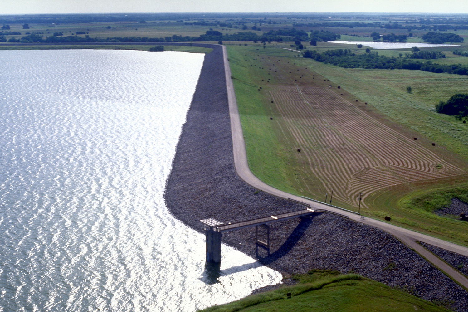 Aerial view of Bardwell Lake and Dam in Ellis County near Ennis, Texas, USA. The lake is nearly five miles long but this photograph shows only the dam and southernmost part of the lake. The lake is named for the nearby hamlet of Bardwell, Texas. View is to the east. Coordinates: 32°15′5.13″N 96°38′24.74″W / 32.251425°N 96.6402056°W U.S. Army Corps of Engineers: Bardwell Lake U.S. Army Corps of Engineers: Bardwell Lake